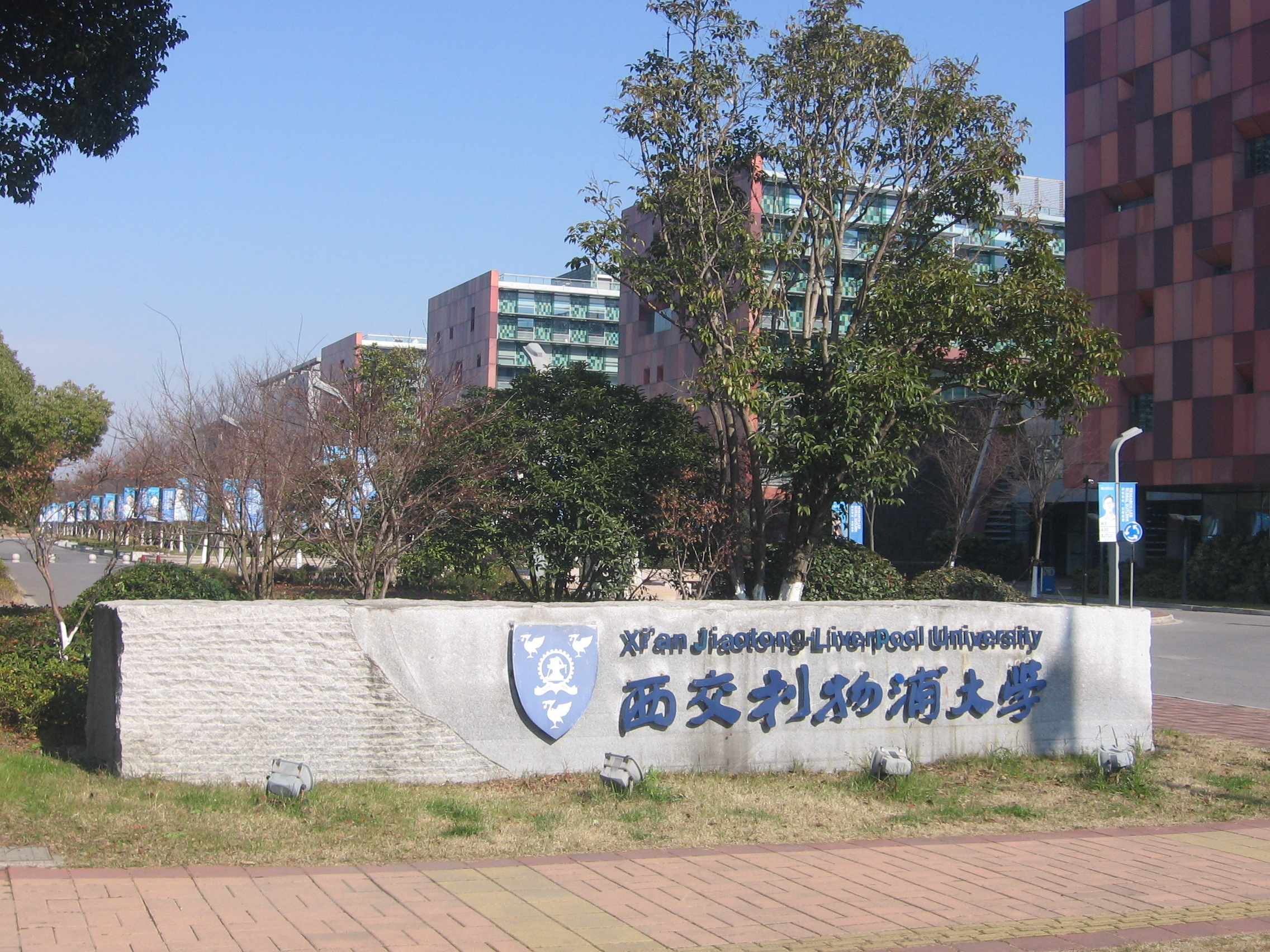 Main entrance of Xi'an Jiaotong-Liverpool University